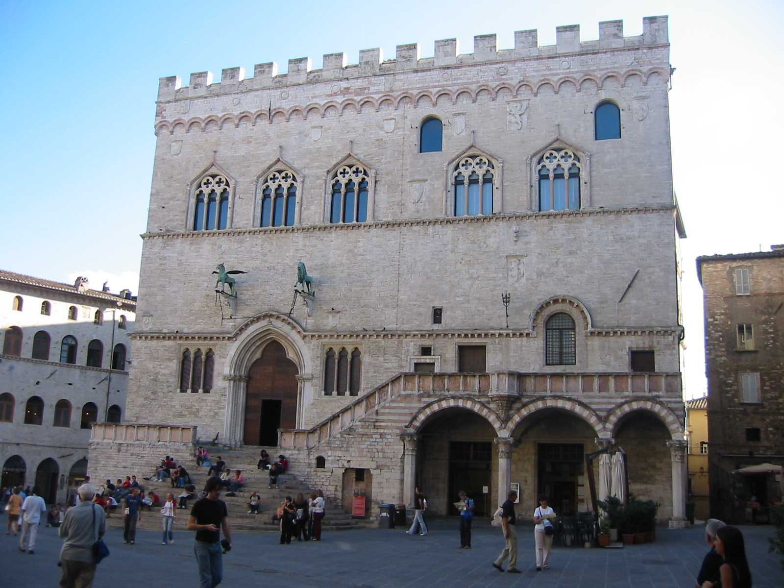 Palazzo dei Priori. Photo taken in September 2004 by Fantasy :-)